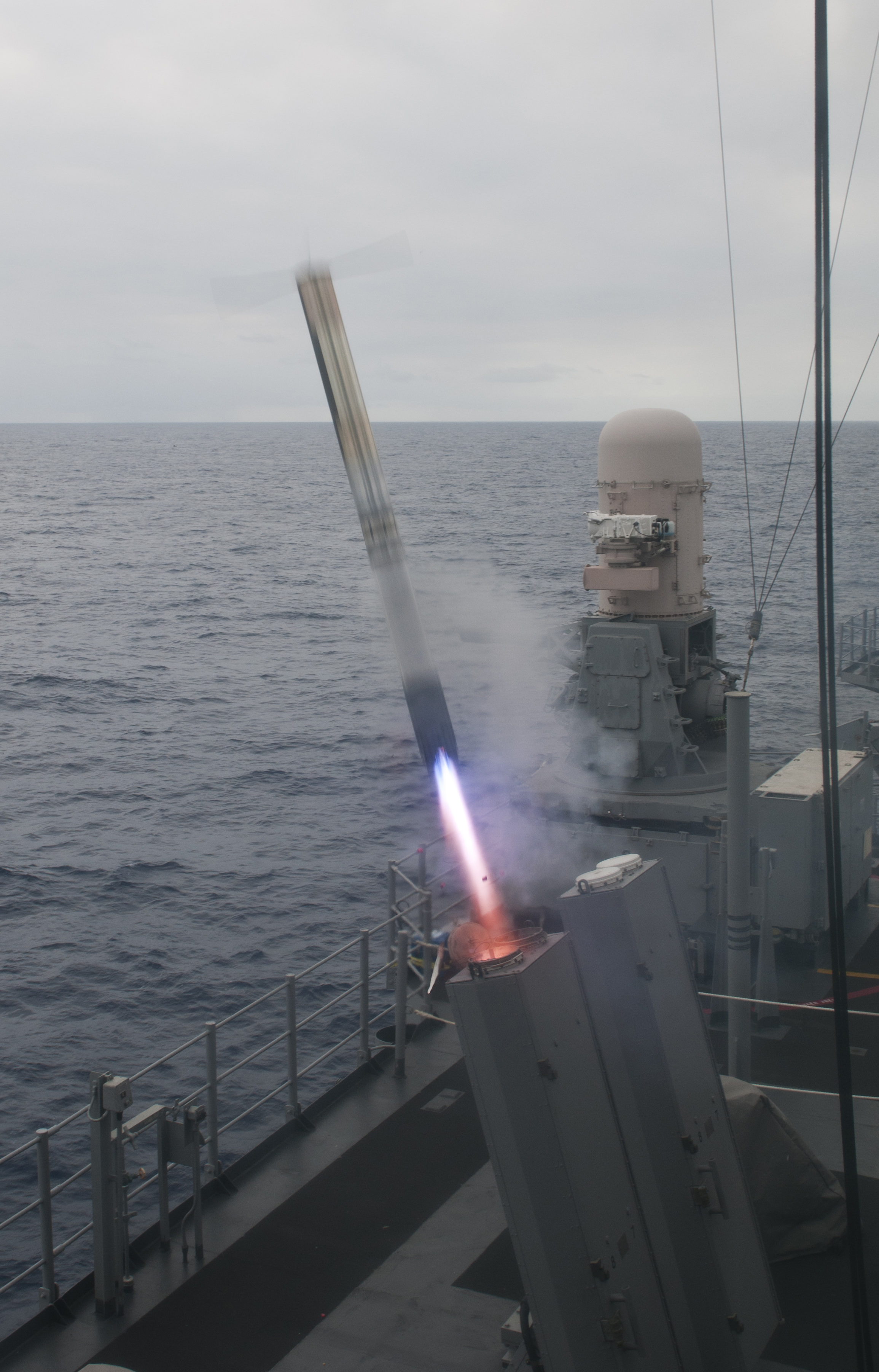 PACIFIC OCEAN (July 19, 2012) An MK-53 Nulka Decoy Launching System launches an electronic decoy cartridge from the guided-missile cruiser USS Chosin (CG 65) during a Nulka fire exercise as part of Rim of the Pacific (RIMPAC) 2012. Twenty-two nations, more than 40 ships and submarines, more than 200 aircraft and 25,000 personnel are participating in the biennial RIMPAC exercise from June 29 to Aug. 3 in and around the Hawaiian Islands. The world's largest international maritime exercise, RIMPAC provides a unique training opportunity that helps participants foster and sustain the cooperative relationships that are critical to ensuring the safety of sea lanes and security on the world's oceans. RIMPAC 2012 is the 23rd exercise in the series that began in 1971. (U.S. Navy photo by Mass Communication Specialist 3rd Class Raul Moreno Jr./Released) 120719-N-LP801-225 Join the conversation navylive.dodlive.mil